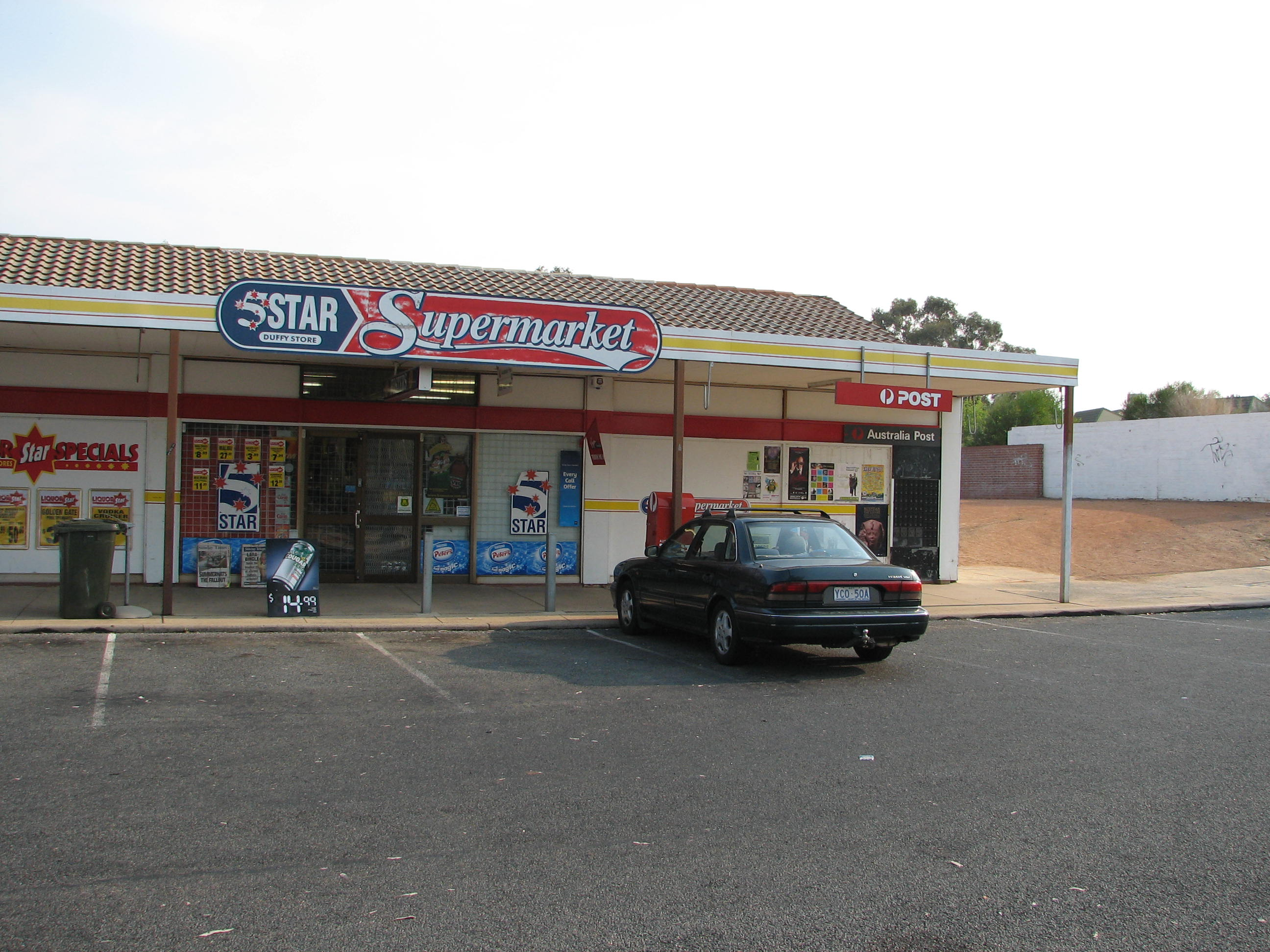 Local shops in Duffy, Australian Capital Territory. Taken by me on 14th January 2007.